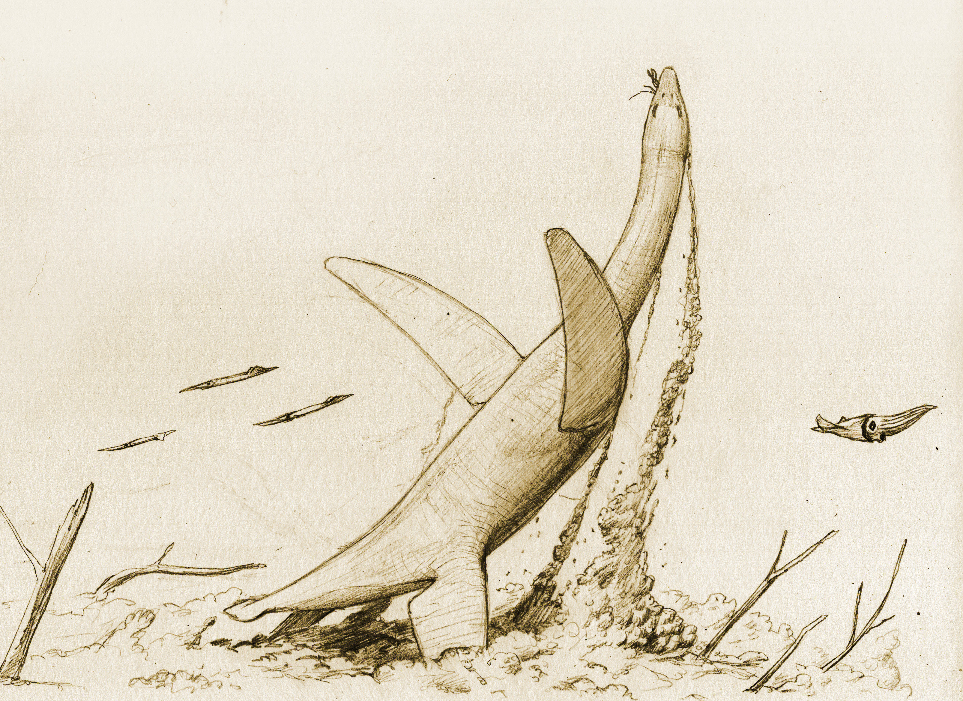 Sketchy restoration of Arminisaurus